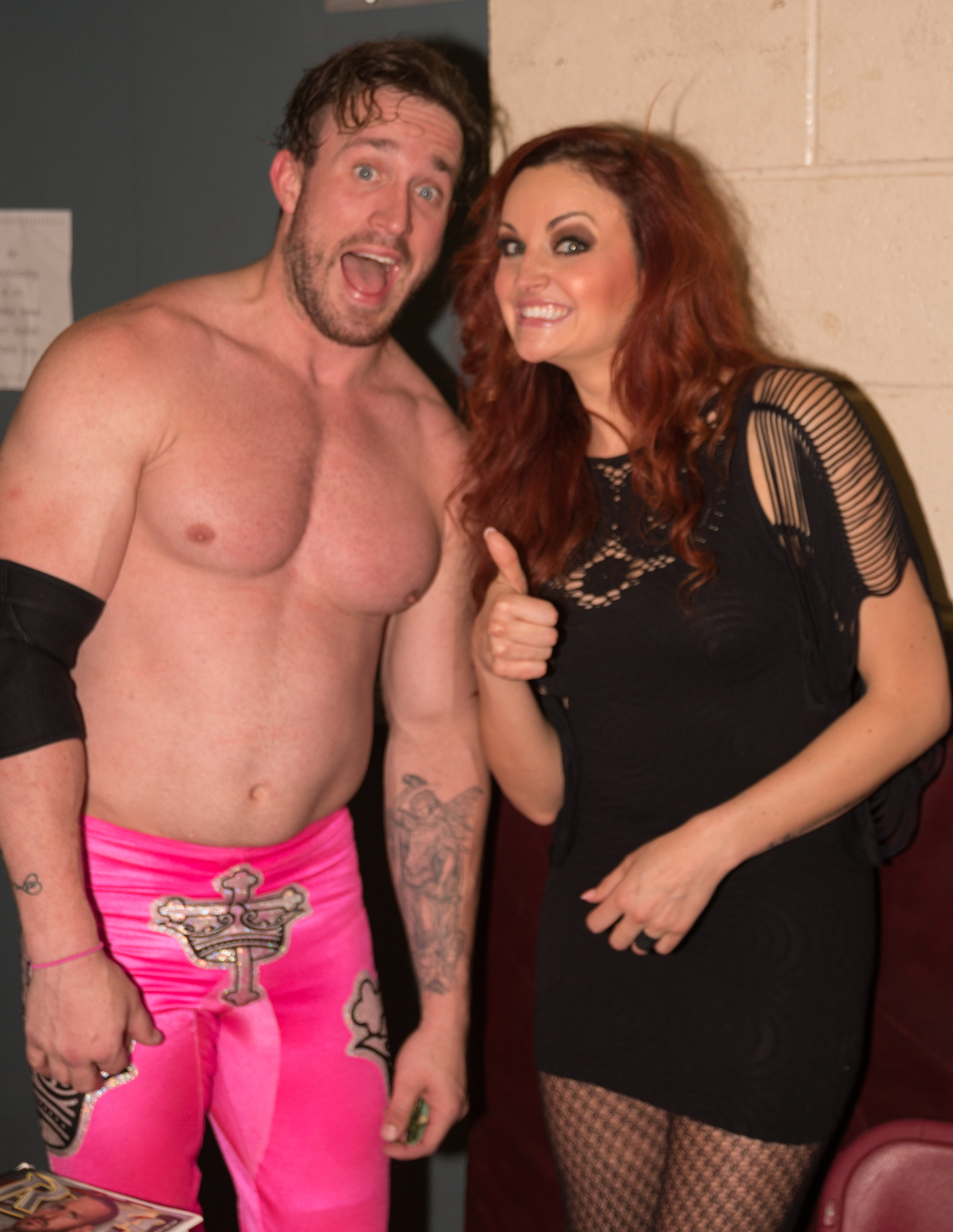 Michael Bennett & Maria Kanellis at a Smash Wrestling show in Etobicoke, ON